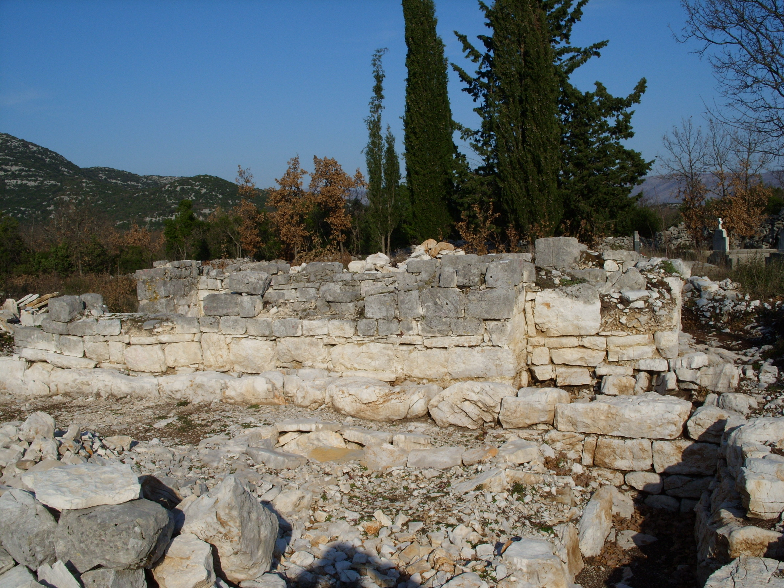 The remains of the medieval church of St. Tekla in the cemetery of village Orah